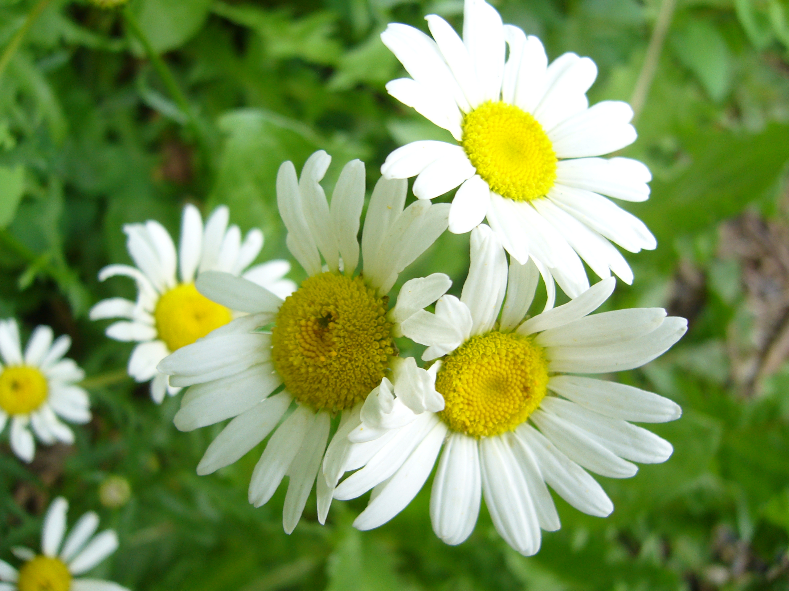 Daisies (unidentified species!) in Coudersport, Pennsylvania